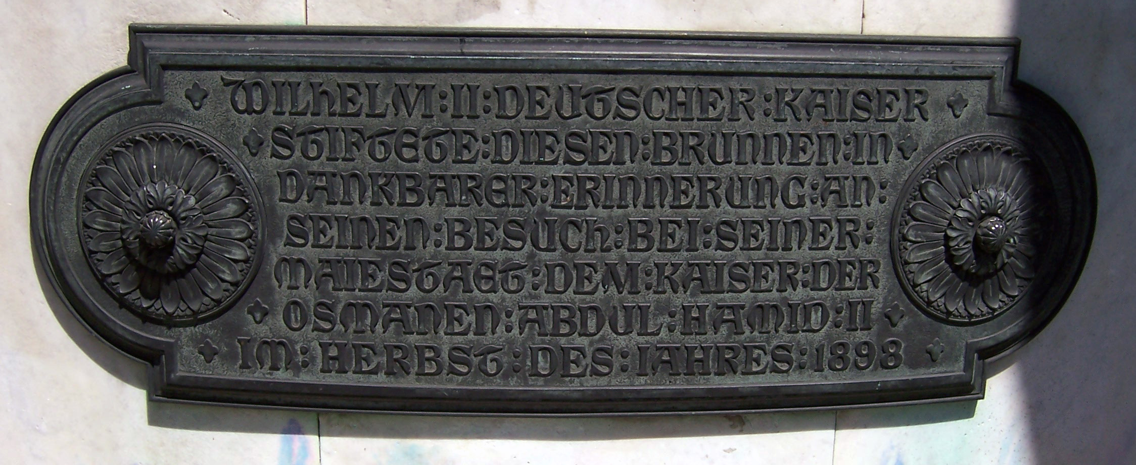 Alman Çeşmesi, Sultanahmet, Istanbul, Turkey. The bronze inscription on reservoir, which was written in German, reads "Wilhelm II Deutscher Kaiser Stiftete Diesen Brunnen In Dankbarer Erinnerung An Seinen Besuch Bei Seiner Majiestaet Dem Kaiser Der Osmanen Abdul Hamid II Im Herbst Des Jahres 1898" meaning "German Kaiser Wilhelm II, who constructed this fountain in 1898 autumn, as a gratitude remembrance for his visit to Ottoman Sultan Abdülhamid II".